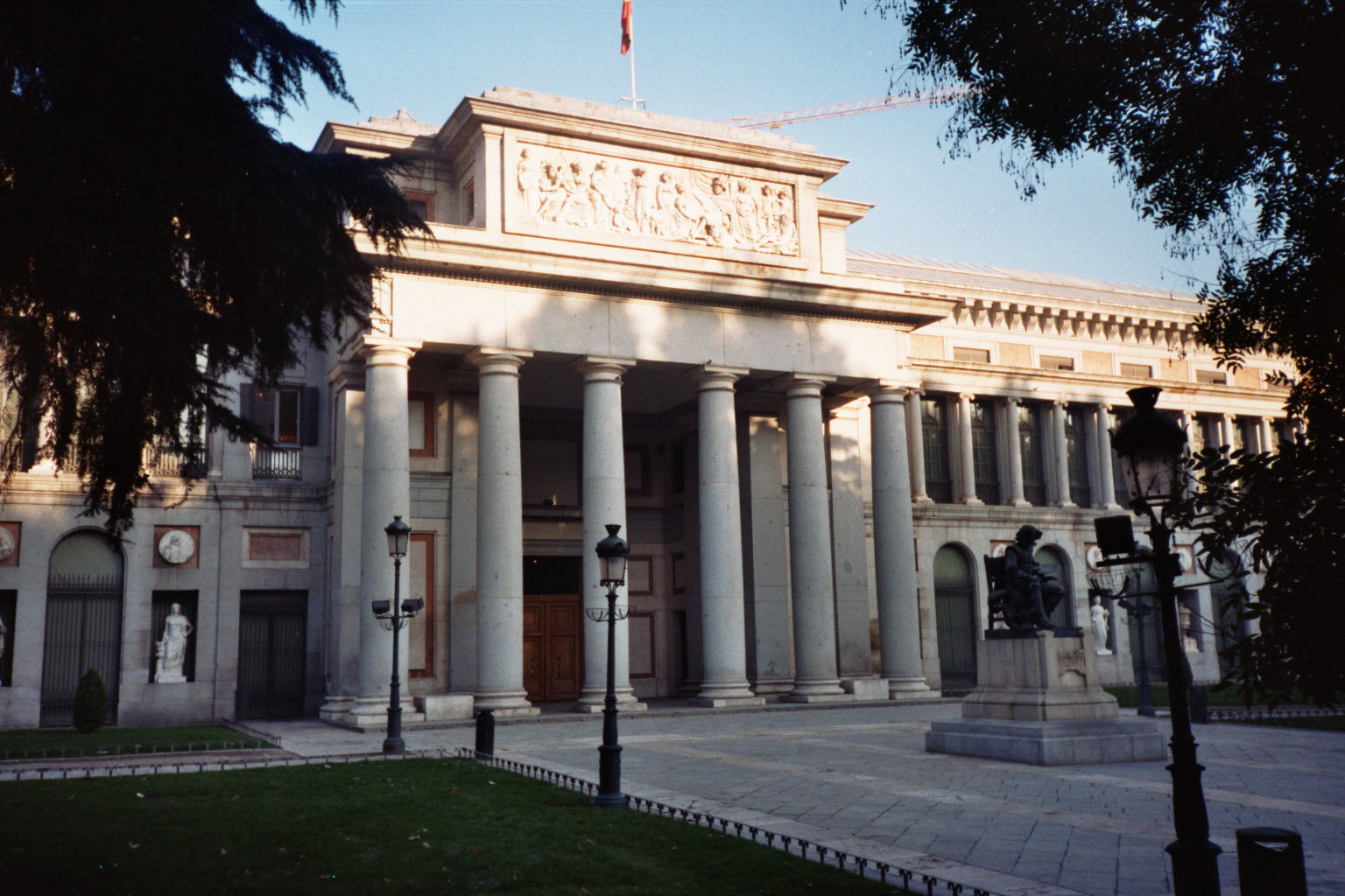 Description: View of the Museo del Prado in Madrid. Source: Self-made, I release it into the public domain.